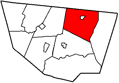 Map of Sullivan County with township and municipal bondaries is taken from US Census website [1] and modified by User:Ruhrfisch in August 2005. My modifications licensed under the GNU Free Documentation License. Source: US Census website [2], modified by User:Ruhrfisch